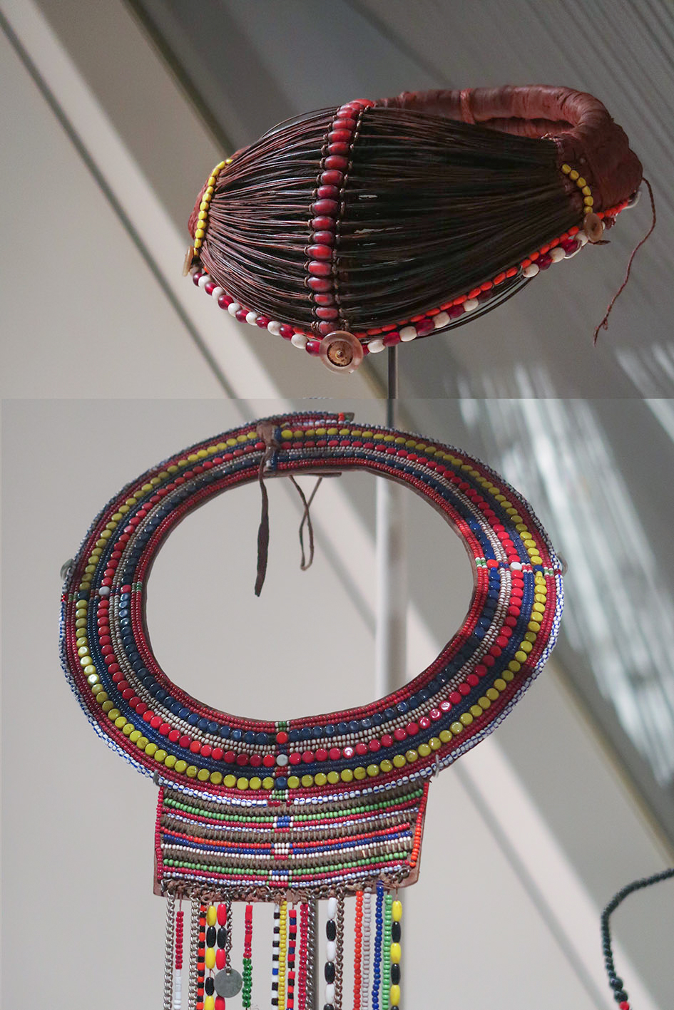 Top: Necklace mporro . 20th century. Vegetable fibers, pearls, buttons. Kenya, Rendille or Samburu population. Gift of Denise and Michel Meynet. This necklace is offered to the woman at her wedding. To the first child, she completes it with an imposing headgear made of mud, grease and ocher. Bottom: Necklace entente , 20th century. Leather, metal, pearls. Kenya or Tanzania, Masai population. The young Masai woman wears this necklace during her wedding. It is important that it will be new and very brilliant. : Notice of the museum. Museum of Confluences, Lyon